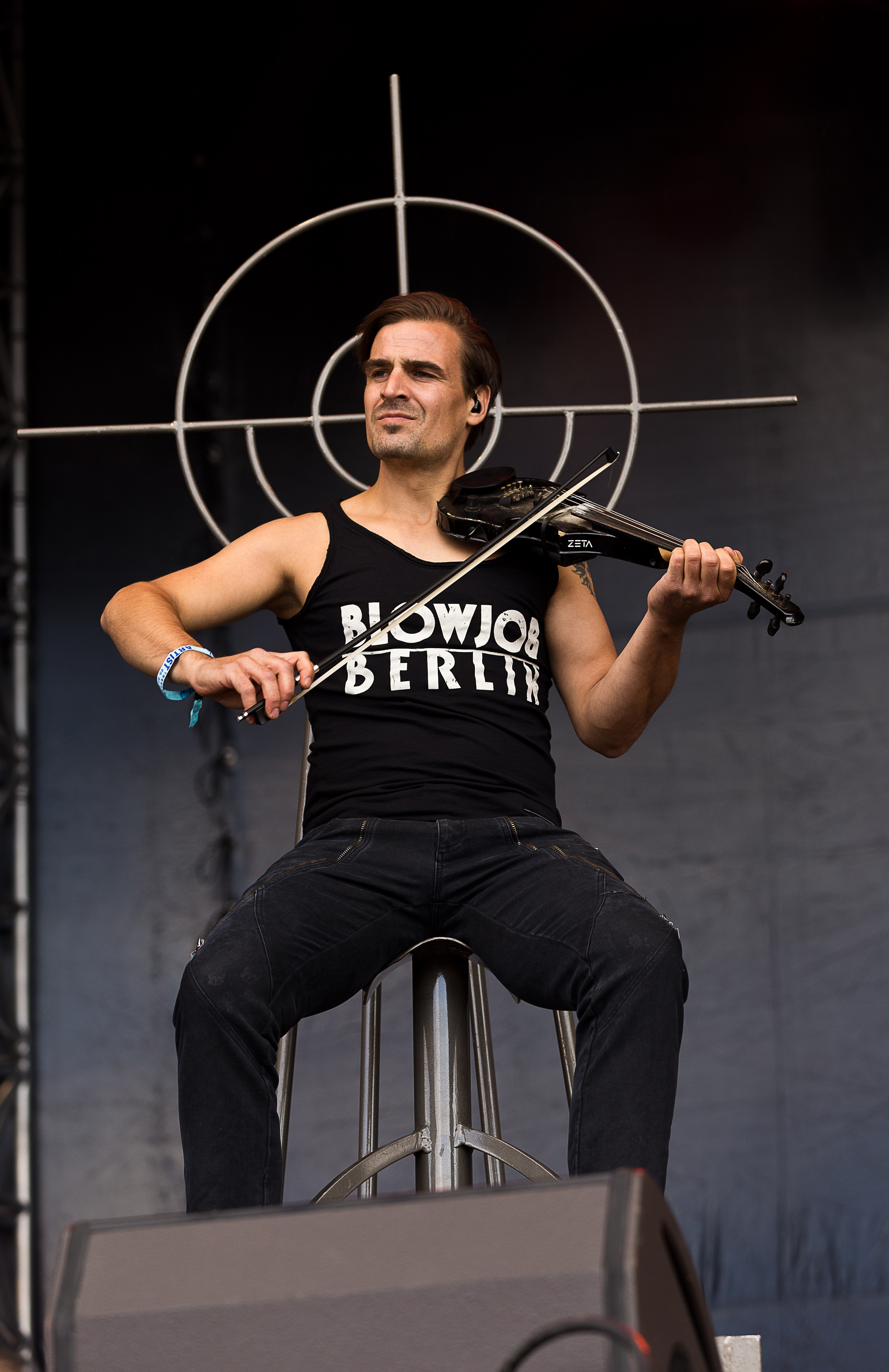 The German rock band Letzte Instanz at the Rockharz Open Air 2015 in Ballenstedt/Germany.